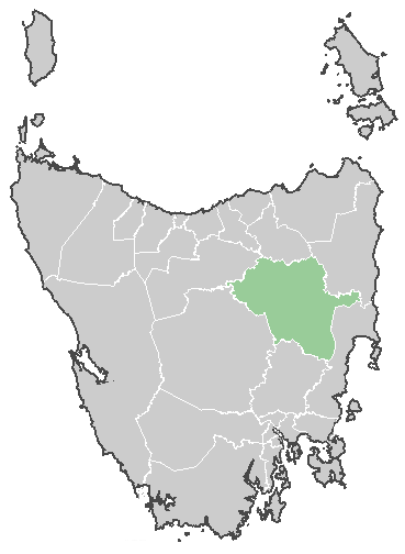 Map of LGA Northern Midlands, Tasmania, Australia